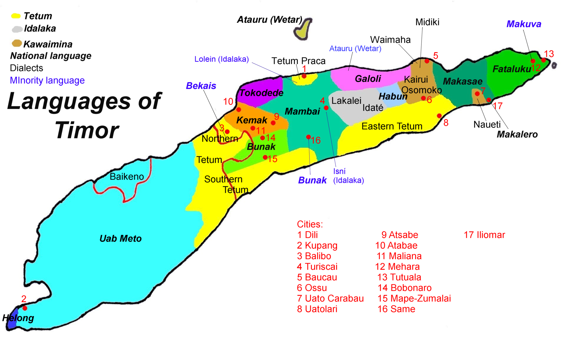 Languages of Timor Island as of 2006 (English)